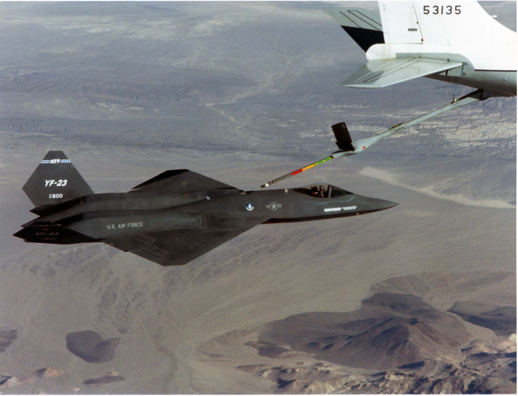 Northrop-McDonnell Douglas YF-23 in-flight refueling. (U.S. Air Force photo)